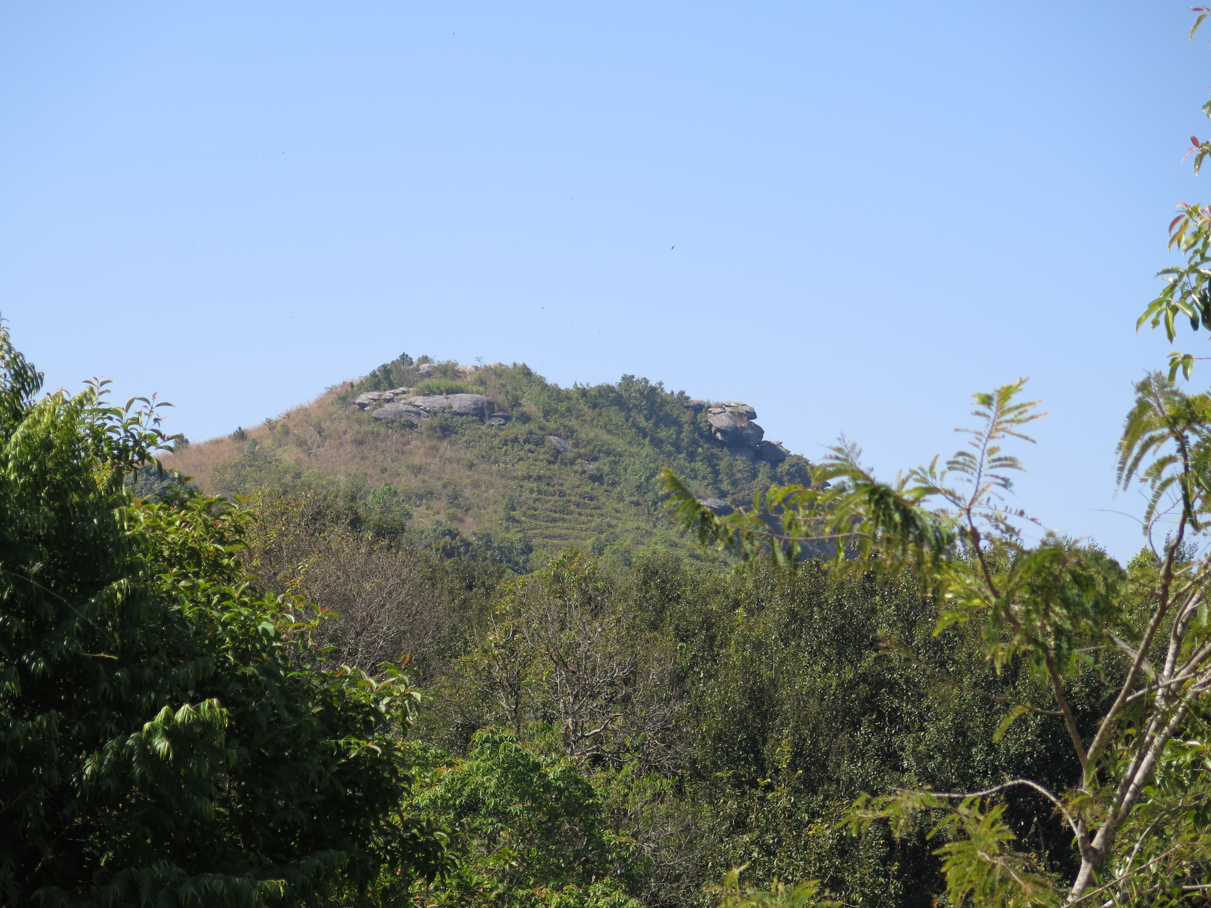 The summit of Khao Phra Mae Ya. Hiking in Ramkhamhaeng National Park, a national park not far southwest of Sukhothai. Sukhothai Province, Thailand.